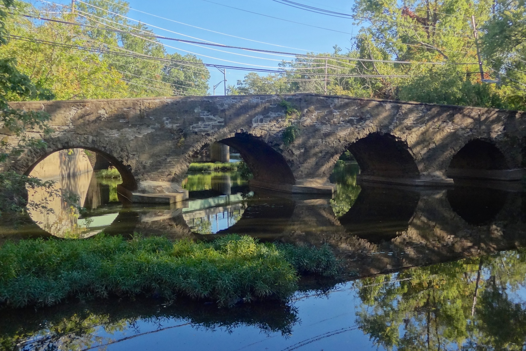 Kingston Mill Historic District, Roughly bounded by Herrontown, River, Princeton-Kingston Rds., and lots W of Princeton Twp. South Brunswick